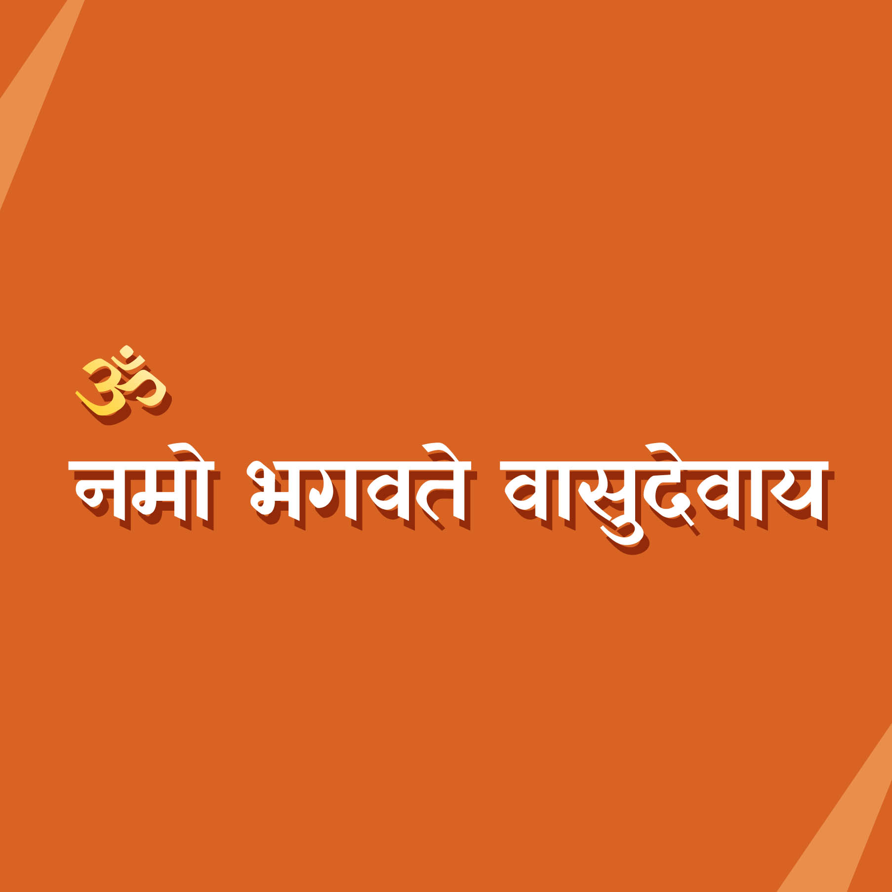 Om Namo Bhagavate Vasudevaya, a Hindu mantra, written in Devanagari script